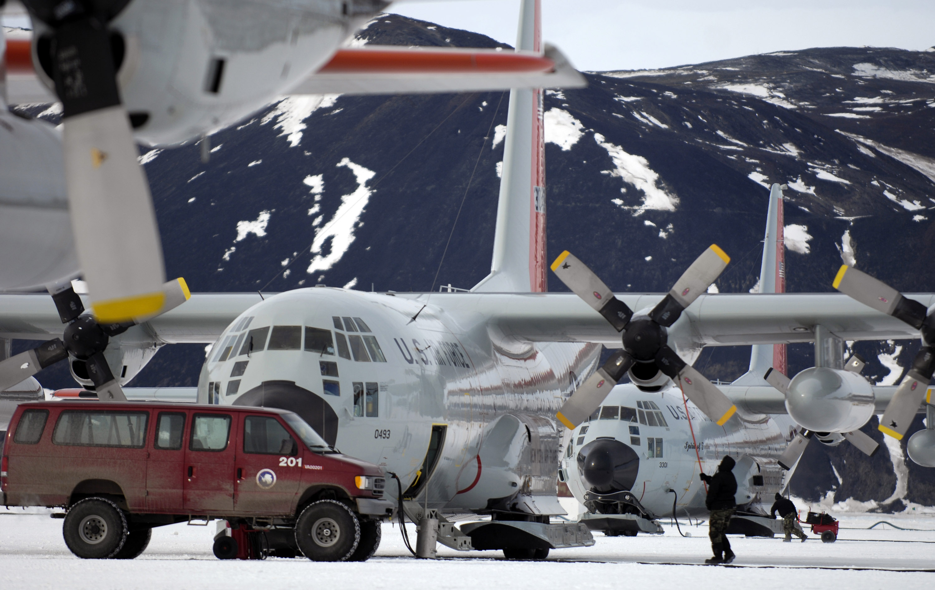 Maintenance crews work on LC-130 Hercules on the annual sea ice runway Nov. 26 near McMurdo Station, Antarctica, during Operation Deep Freeze. Ski-equipped LC-130s, crews and support personnel from the New York Air National Guard's 109th Airlift Wing are supporting the 13th Air Force-led Joint Task Force Support Forces Antarctica, Operation Deep Freeze. Operation Deep Freeze is a unique joint and total-force mission that has supported the National Science Foundation and U.S. Antarctic Program that began in 1955.